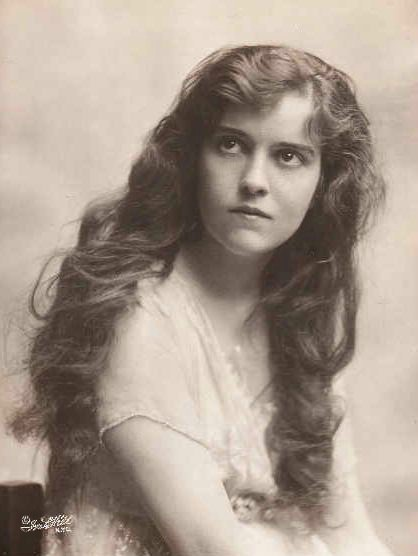 Portrait of American actress Madge Kennedy (1891–1987) by Ira Lawrence Hill (Ira Hill, N.Y.C.)